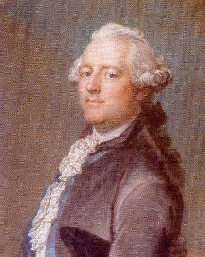 Portrait of Clas Alströmer, Swedish botanist, at the age of 35